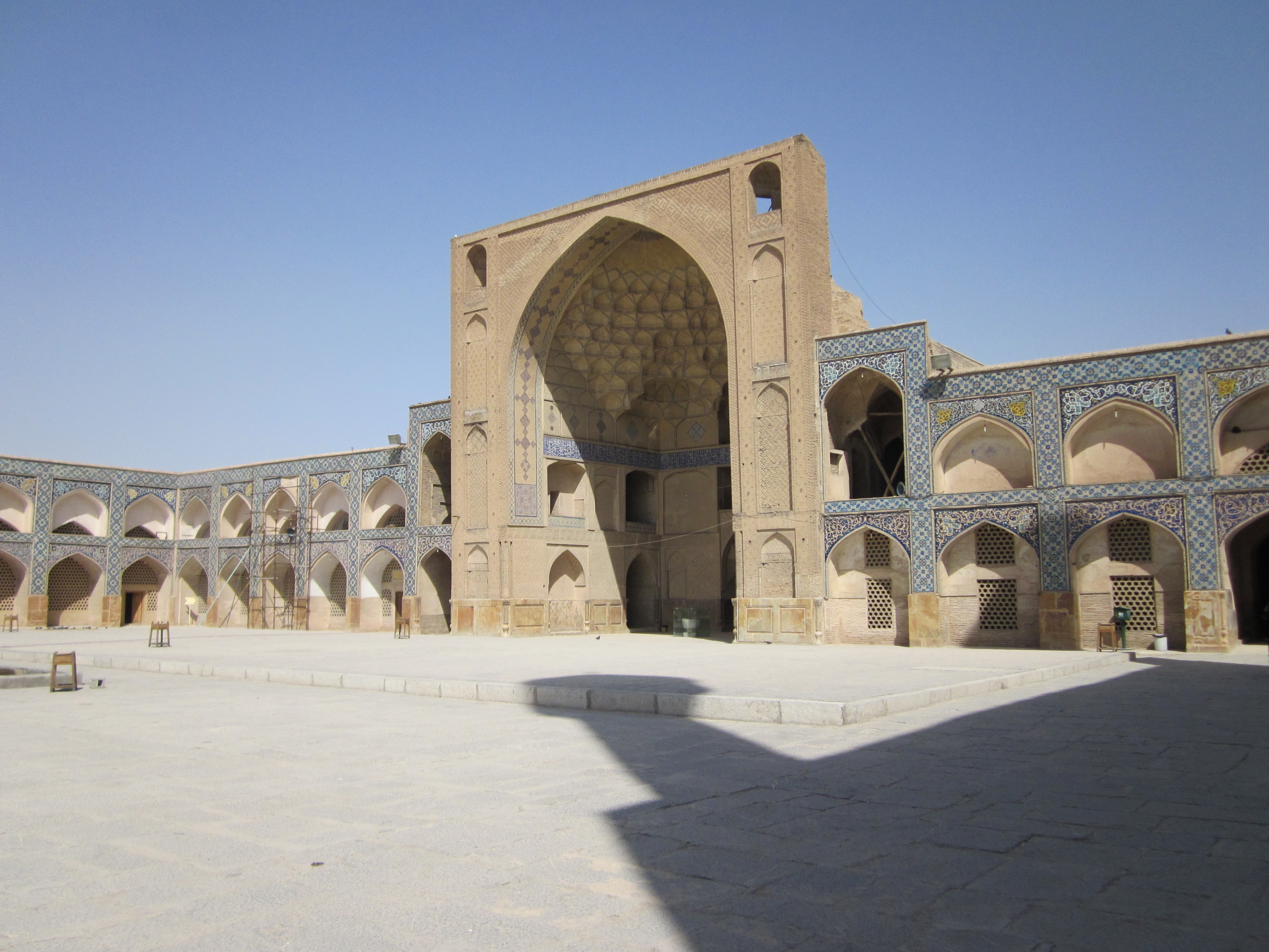 Friday Mosque, Isfahan, Iran.